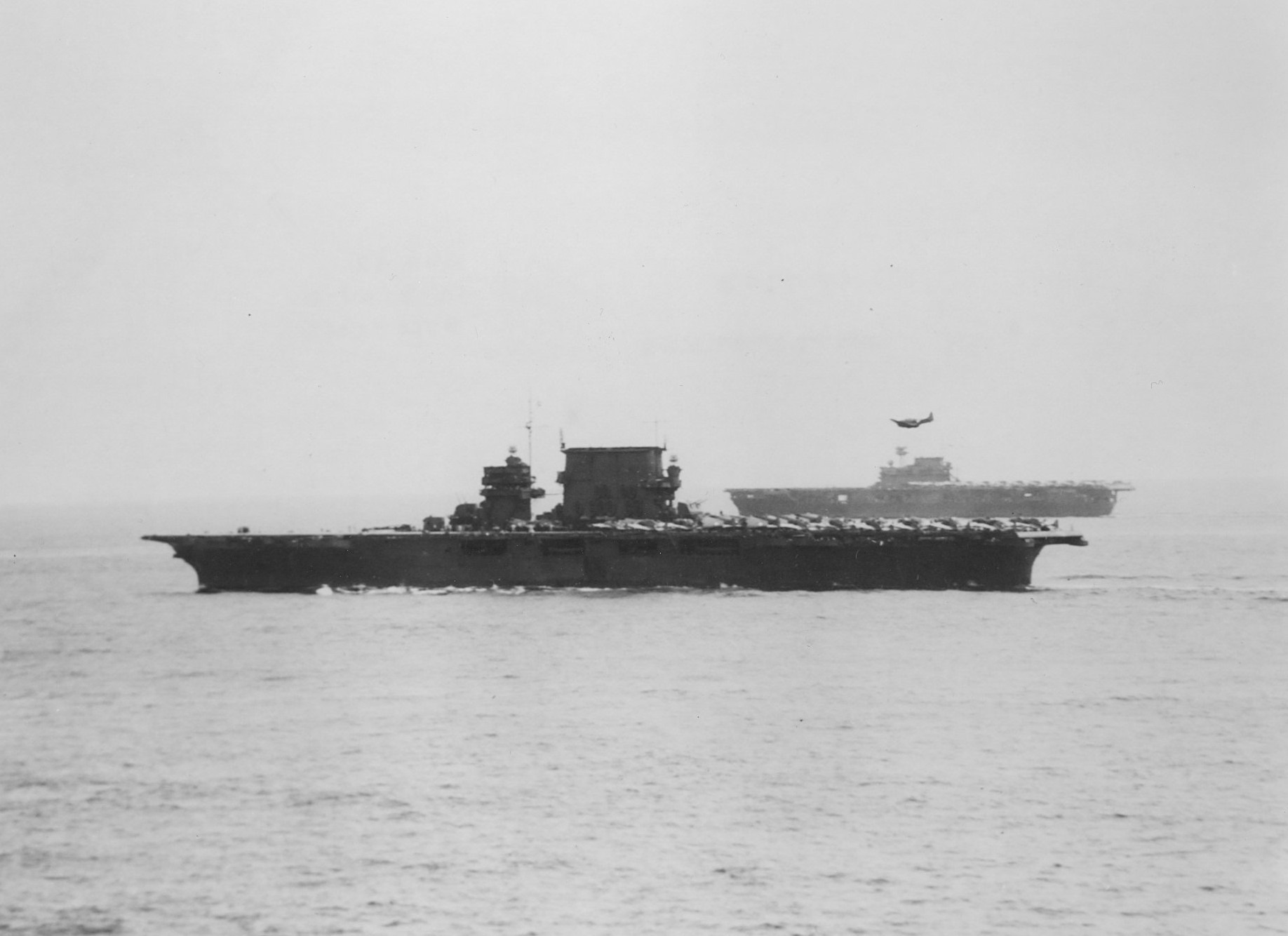 The U.S. aircraft carriers USS Saratoga (CV-3) (foreground) and USS Enterprise (CV-6) are underway with aircraft spotted for launch, circa August 1942.